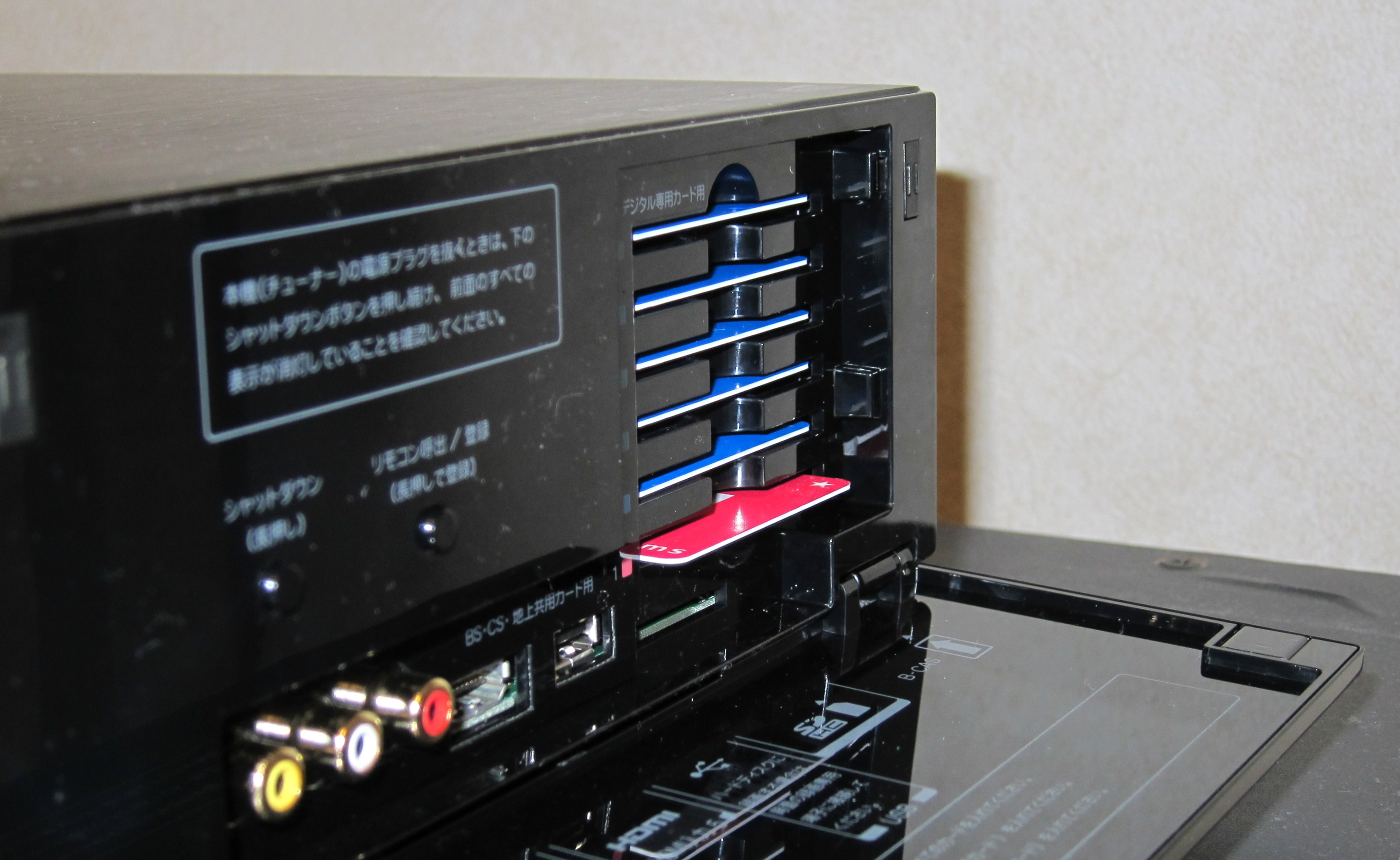 Toshiba 55X1 (CELL REGZA)